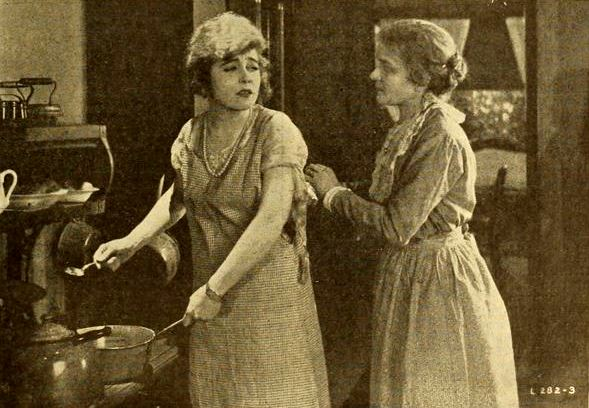 Still from the American drama film Men, Women, and Money (1919) with Ethel Clayton and Jane Wolfe, on page 1805 of the June 21, 1919 Moving Picture World.